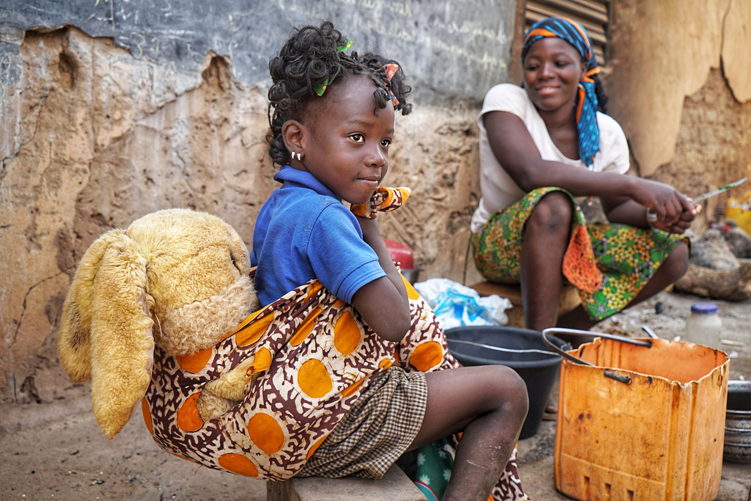 Couldn't hold my laugh when I saw this young girl coming home from school with 'her baby' on her back. This is an image with the theme "Play" from: Burkina Faso